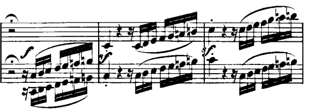 Piano opening C minor scale from the first movement of Ludwig van Beethoven's Piano Concerto No. 3 in C minor, Op. 37 (1800)